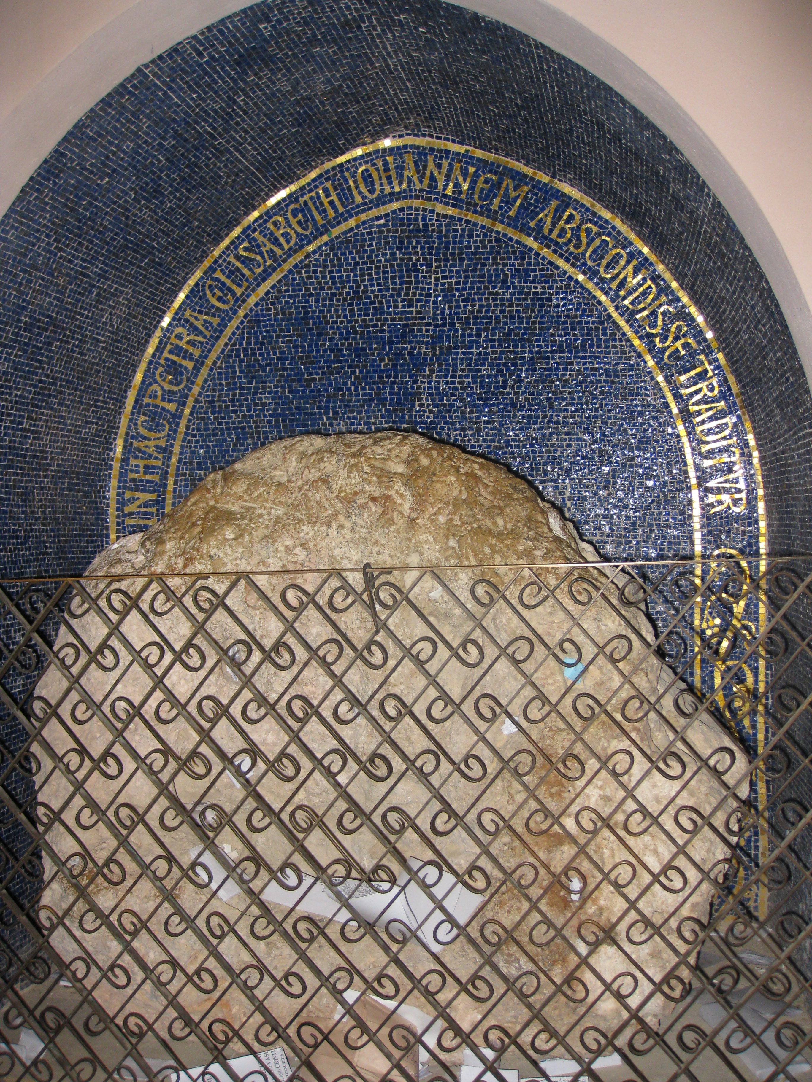 The Rock behind which Elizabeth hid in the Church of the Visitation